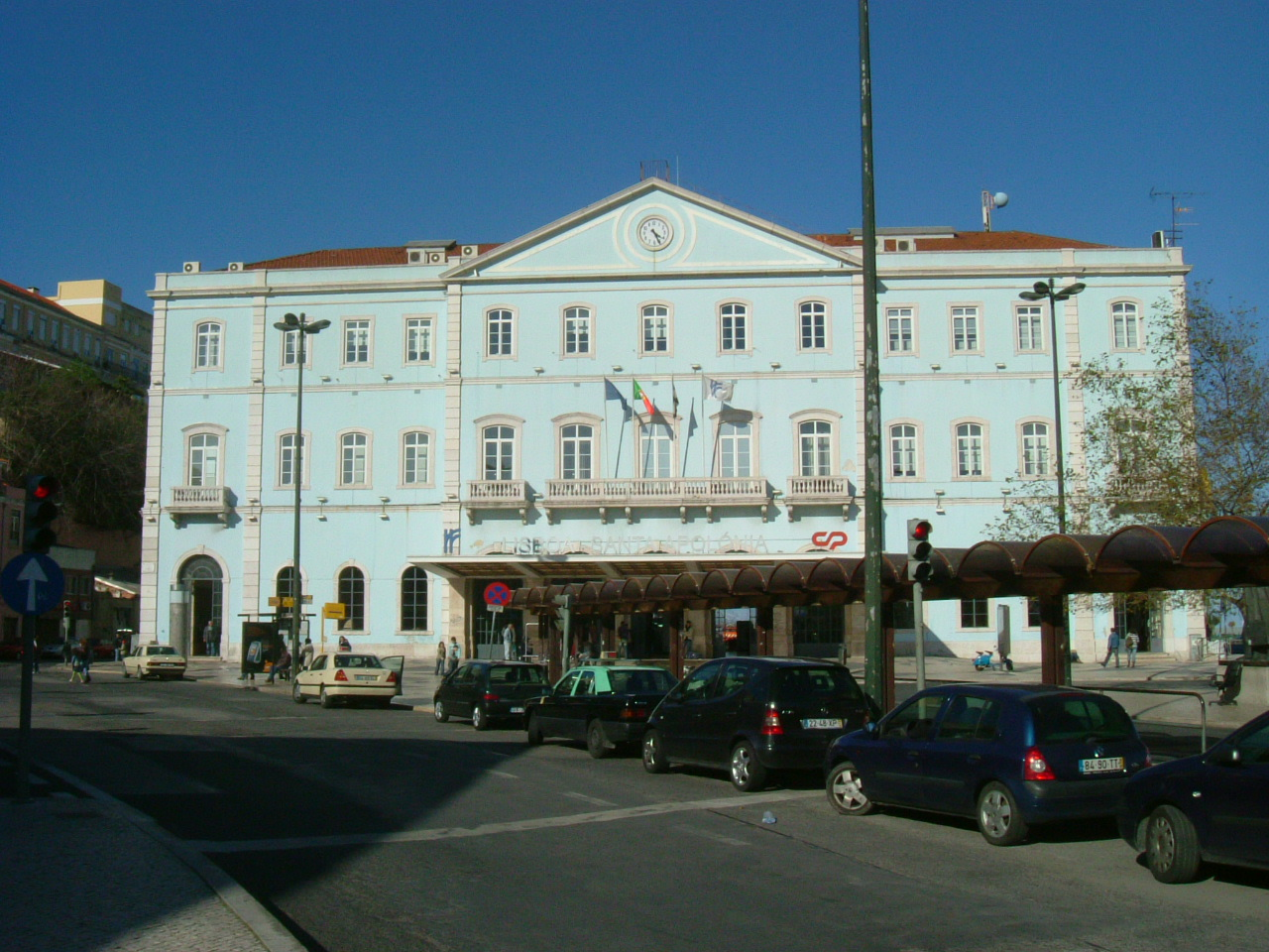 the Lisbon train station Santa Apolónia, Portugal